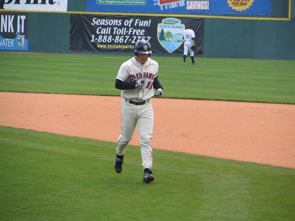 Marshall McDougall playing for the Oklahoma RedHawks.Marshall McDougall